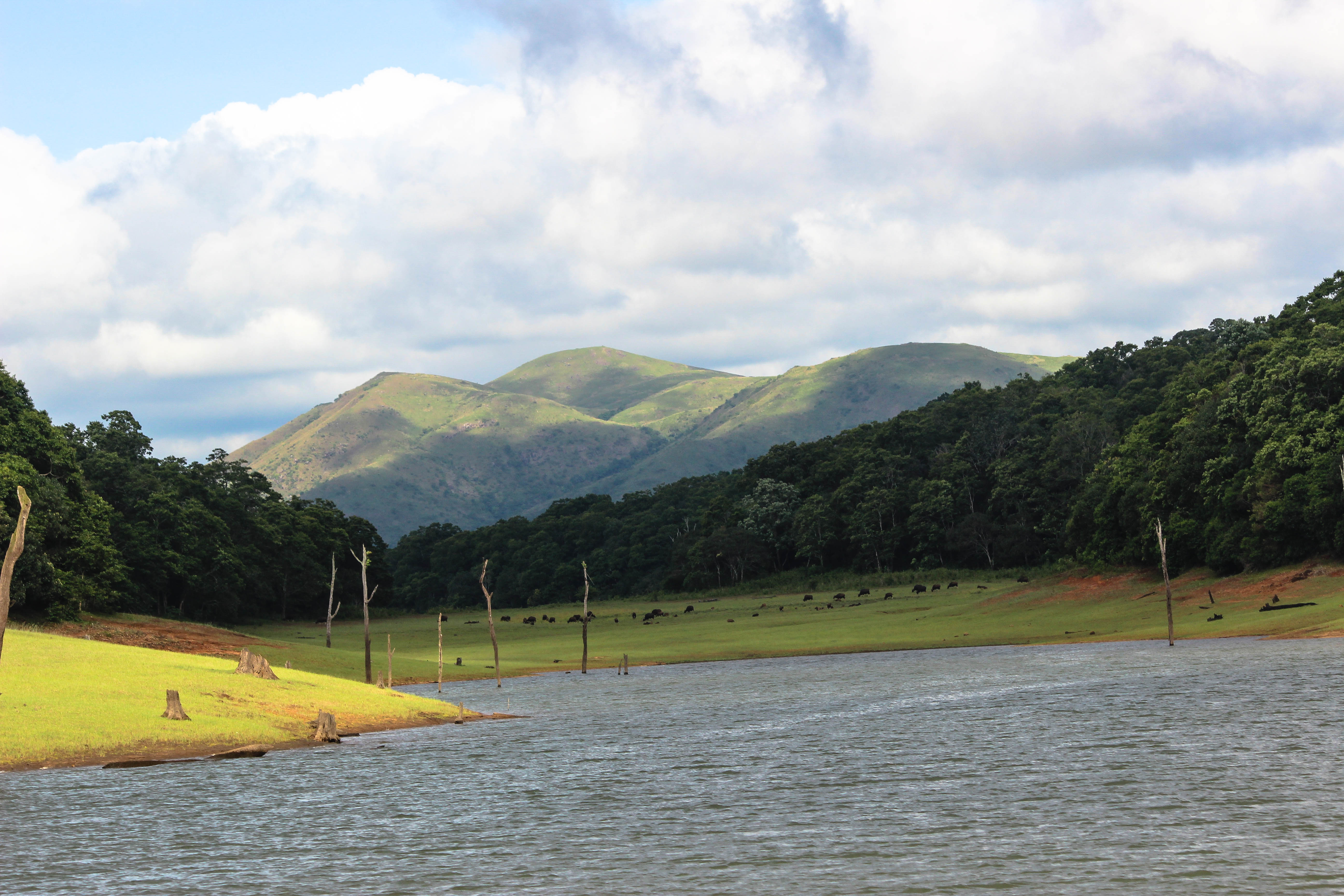 This "Heaven on Earth" nature photo of Periyar Lake is a panoramic beauty with the clouds hovering around the top of the mountain, serene lake and the group of bisons grazing over the grassland. This picture was taken at Periyar National park, which is one of the finest protected area in India.